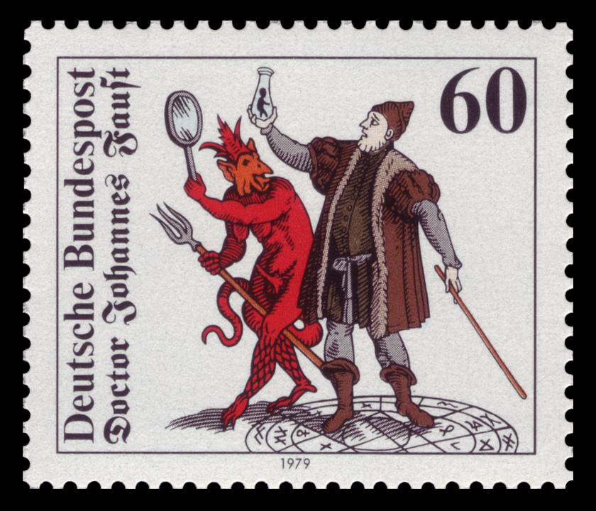 Johannes Faust with Homunculus, Mephistopheles Graphic designer: Burkert Ausgabepreis: 60 Pfennig First Day of Issue / Erstausgabetag: 14. November 1979 Michel-Katalog-Nr: 1030